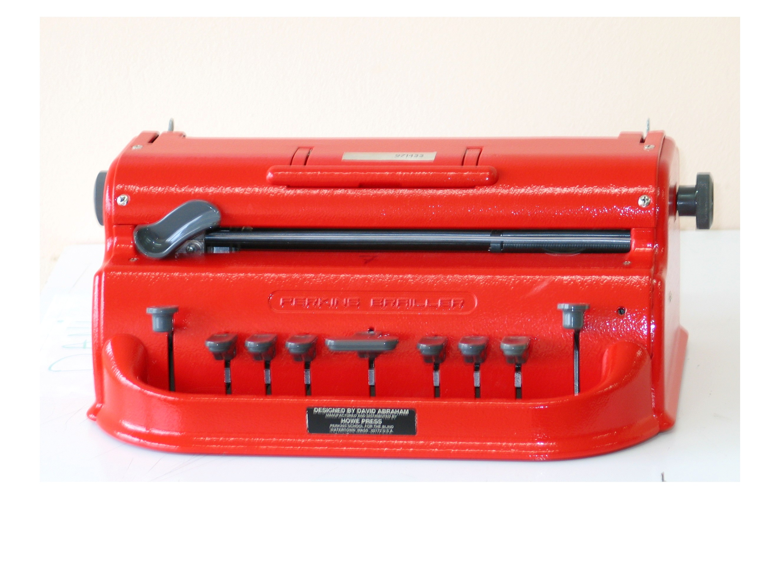 Perkins typewriter